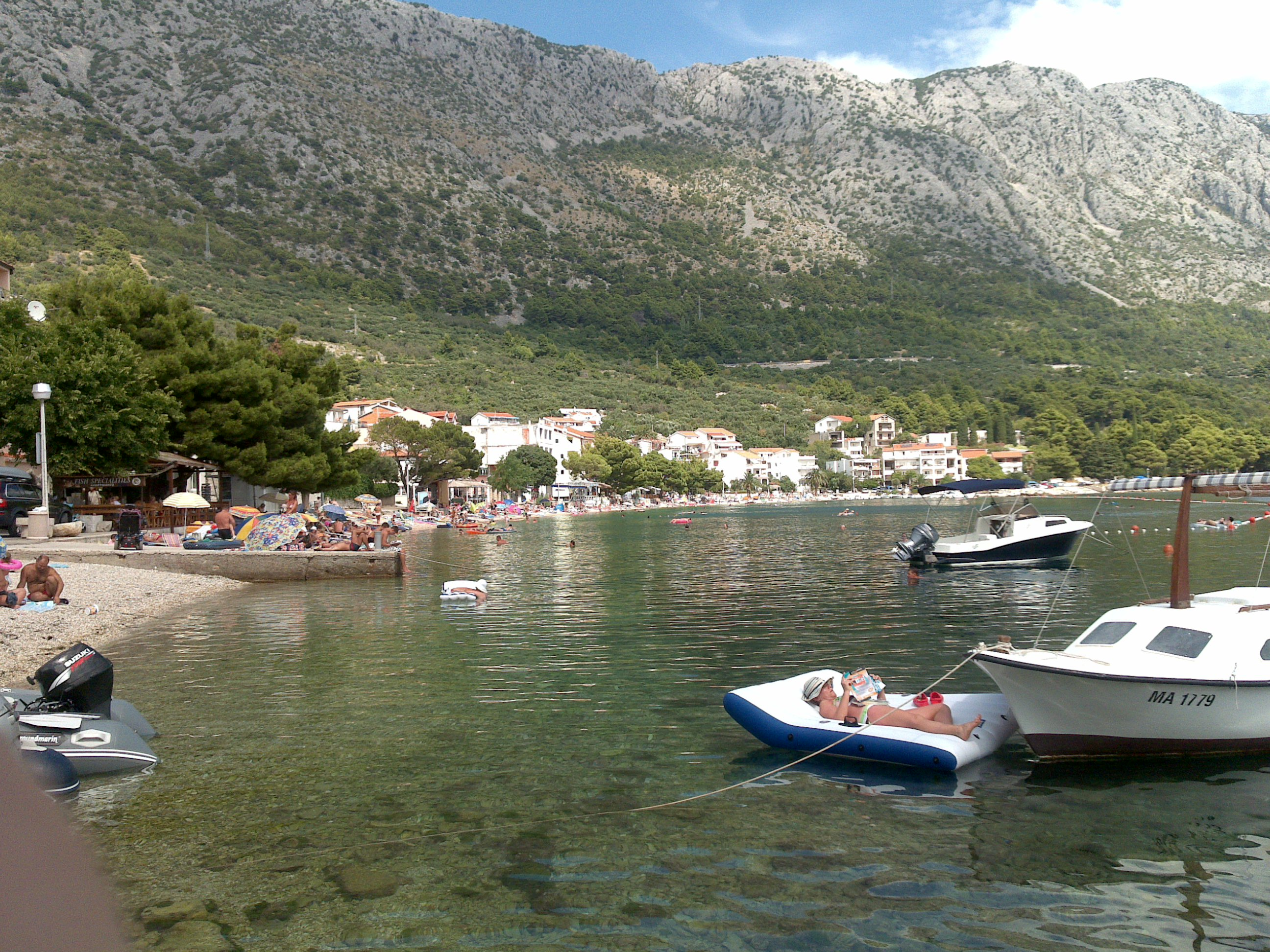 View of Igrane beach center.